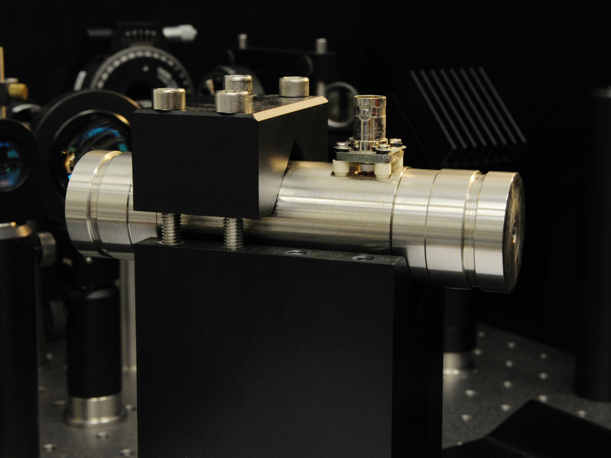 Photograph of a Fabry–Pérot interferometer for laser wavelength scanning applications.